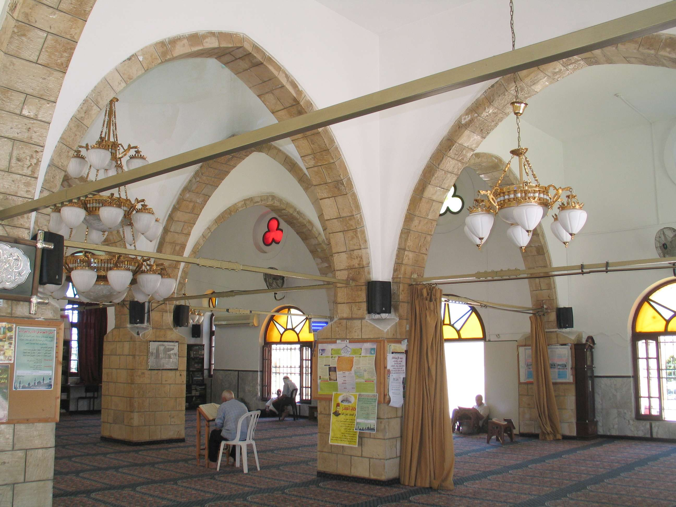 Hassan Bek mosque, Tel Aviv Yafo, Israel.